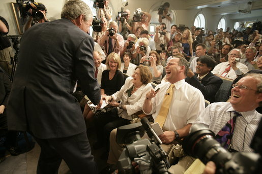 President George W. Bush conveys birthday wishes to reporter Helen Thomas in the James S. Brady Press Briefing Room during its last day of operation before it closes for renovations Wednesday, August 2, 2006. White House photo by Eric Draper